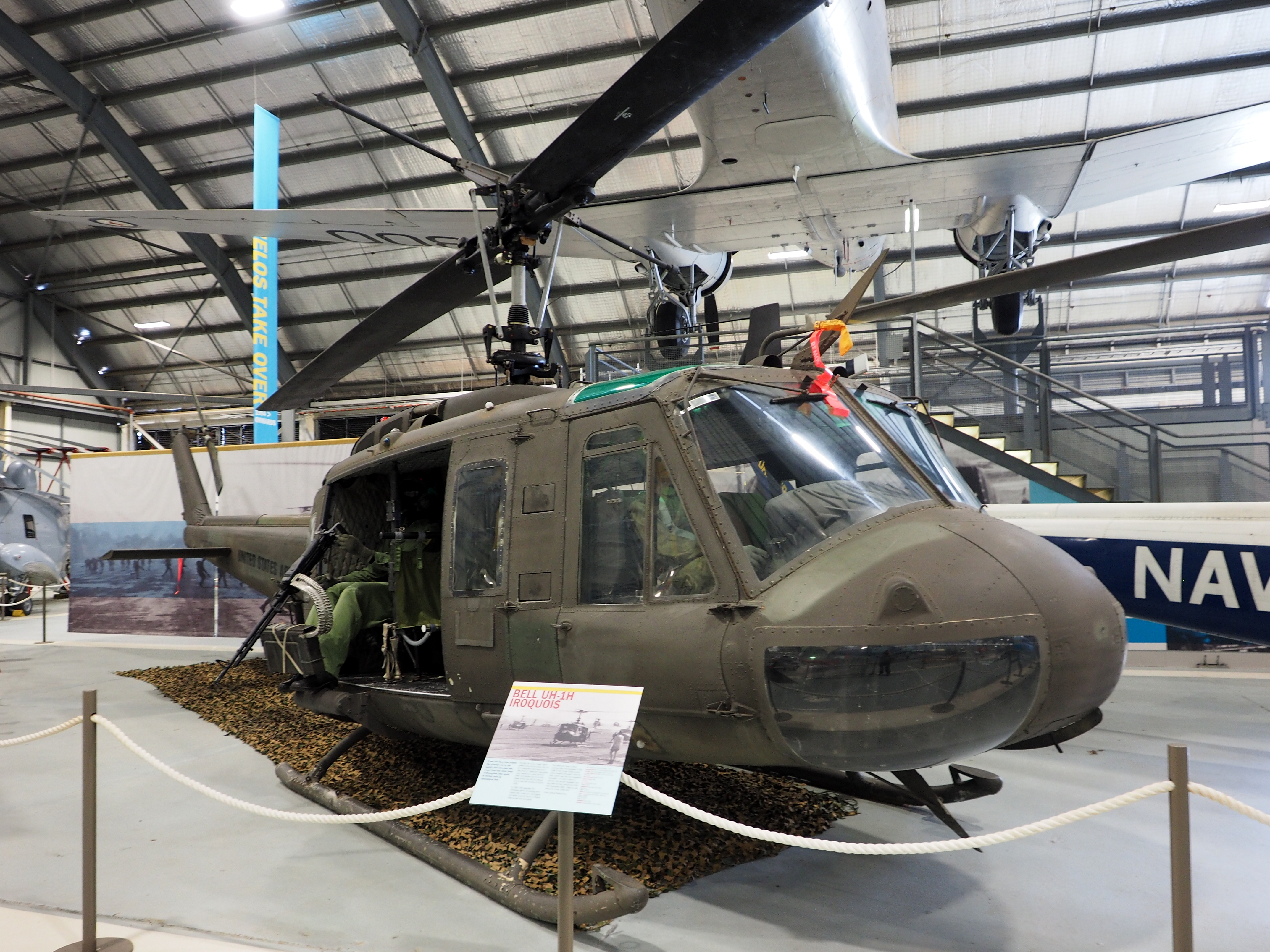 A United States Army Bell UH-1H Iroquois helicopter on display at the Fleet Air Arm Museum. This aircraft was flown by Royal Australian Navy aircrew attached to the joint Australian-United States Experimental Military Unit during the Vietnam War